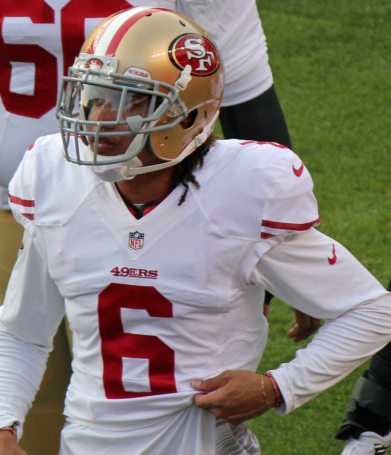 Dres Anderson, a player on the National Football League.